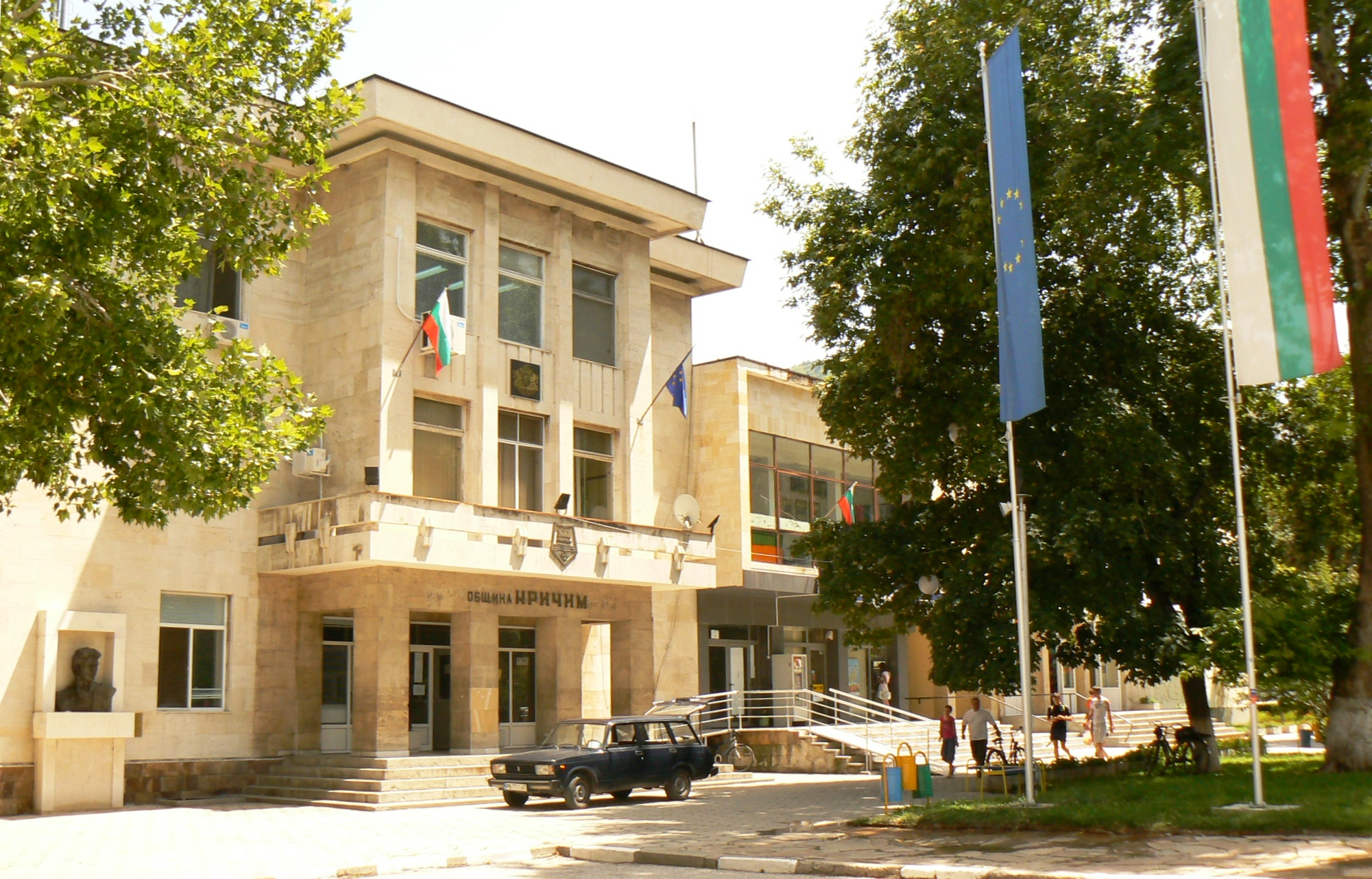 The building of Krichim Municipality, Bulgaria.